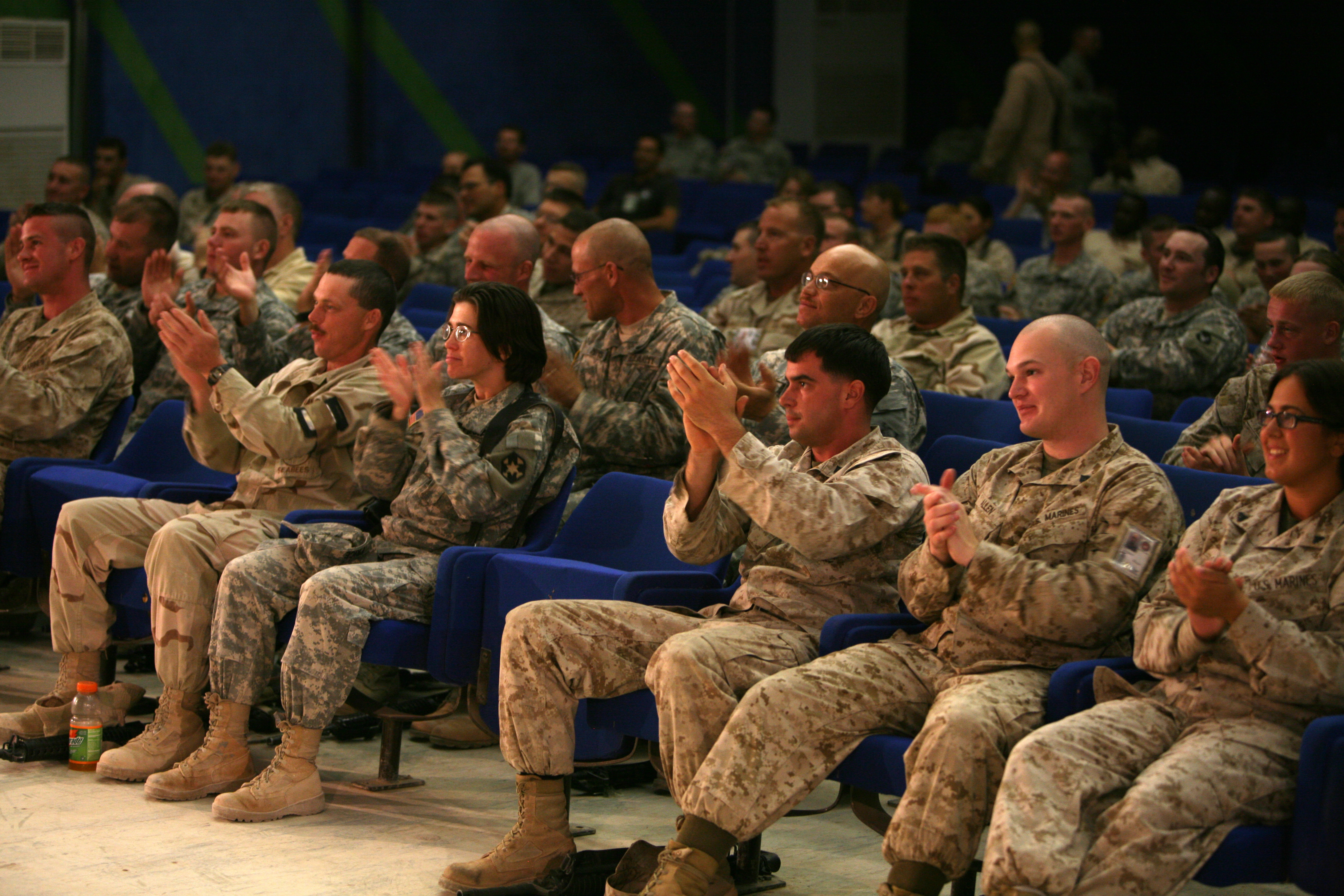 AL ASAD, Iraq - Service members in the crowd applaud after one of the songs performed by Gina Notrica and The Bootleggers during a concert at the Al Asad base theater, July 3. For many service members the best part of the show was the audience participation.